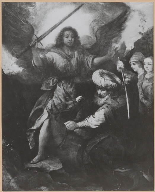 Balaam and his ass, Barent Fabritius, 1672, oil on canvas, 49 by 39.5 cm, private collection